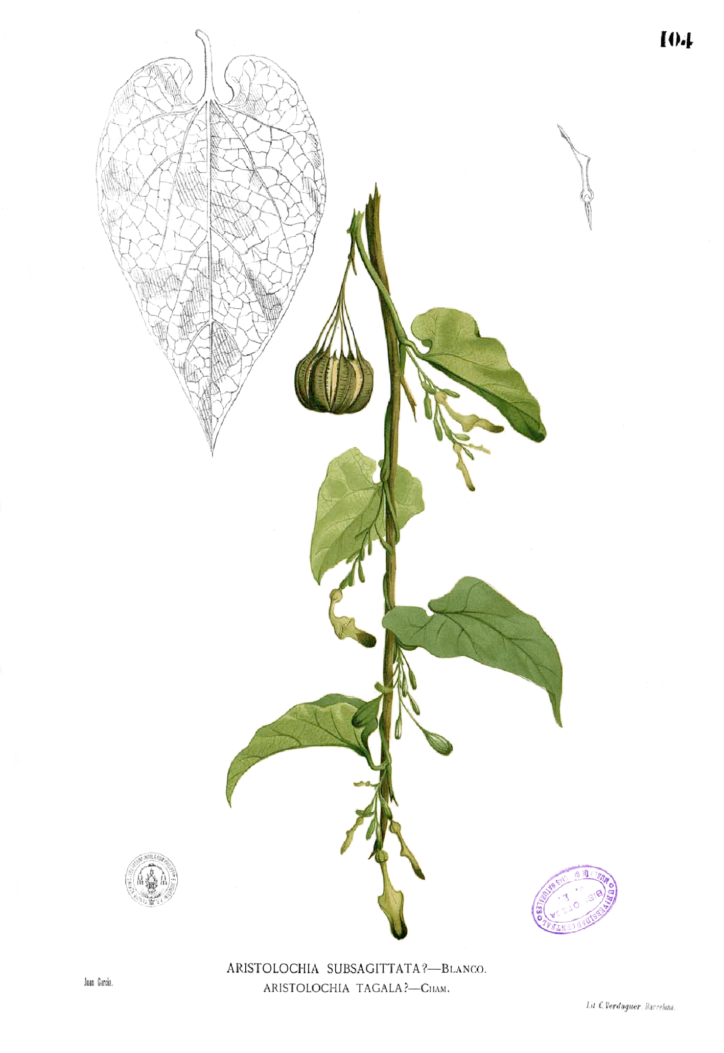 Plate from book